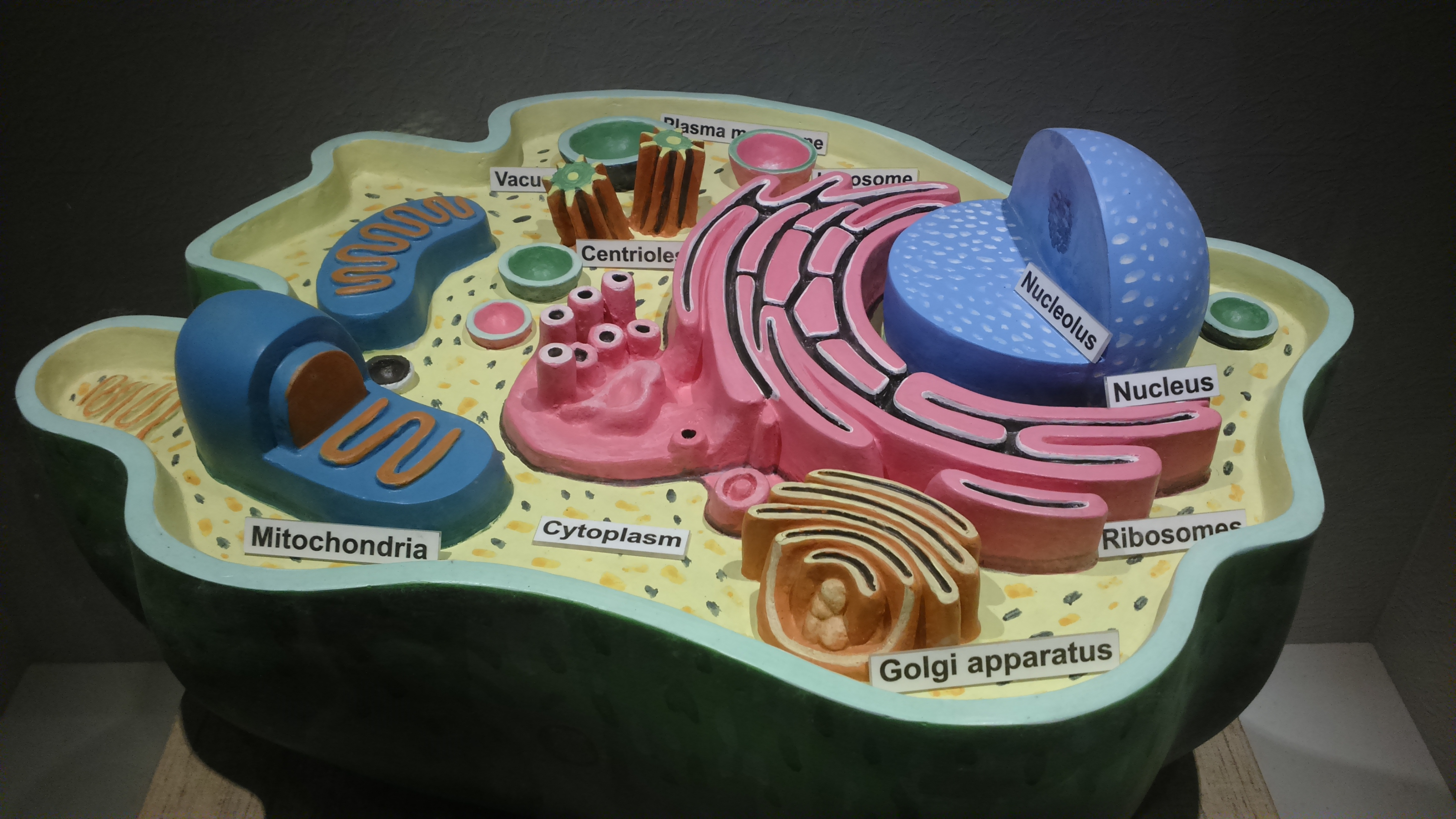 Structure of animal cell in Indian Museum, Kolkata, India